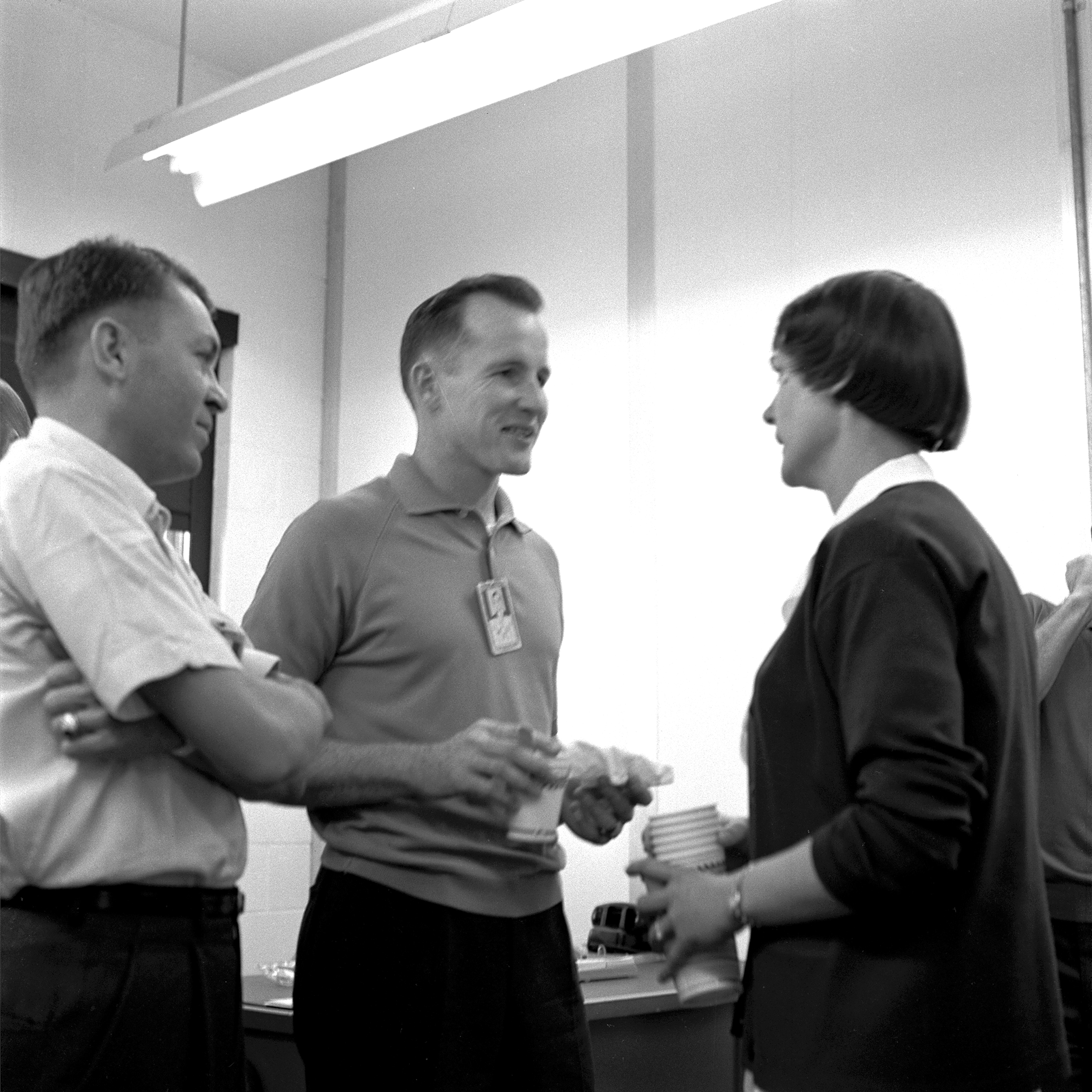 Elliot See and Ed White talking and drinking coffee with Nurse Dee O'Hara in Aero Med, Hangar S. Image # : 62P-0204